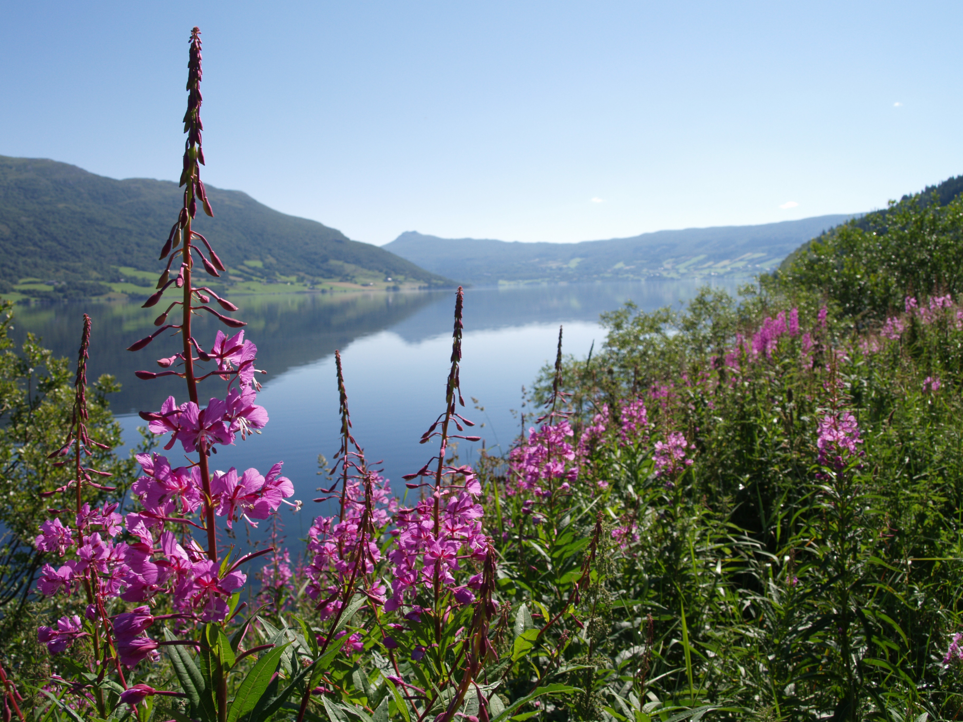 Vangsmjøsi